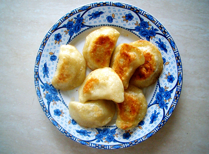 Christmas fried dumplings with dried plums